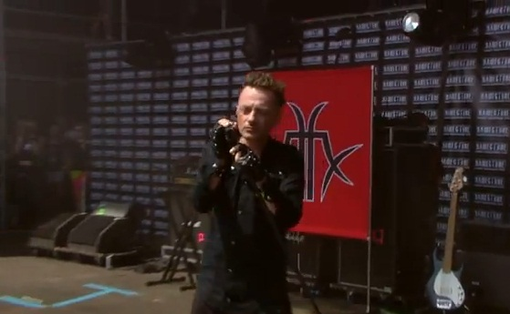 Глеб Самойлоff and the Matrixx - НАШЕСТВИЕ 2011